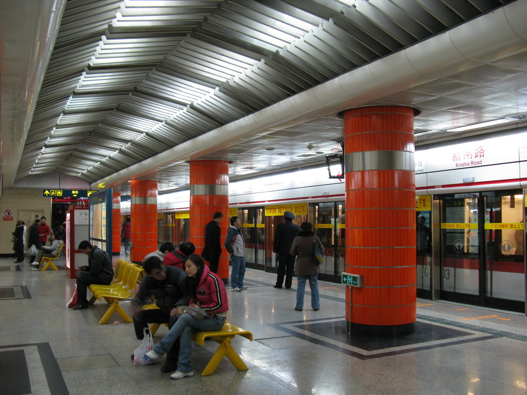 新闸路站 1号线月台 Line 1 Platform of Xinzha Road Station